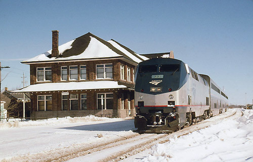 The westbound International at Stratford station in February 2004